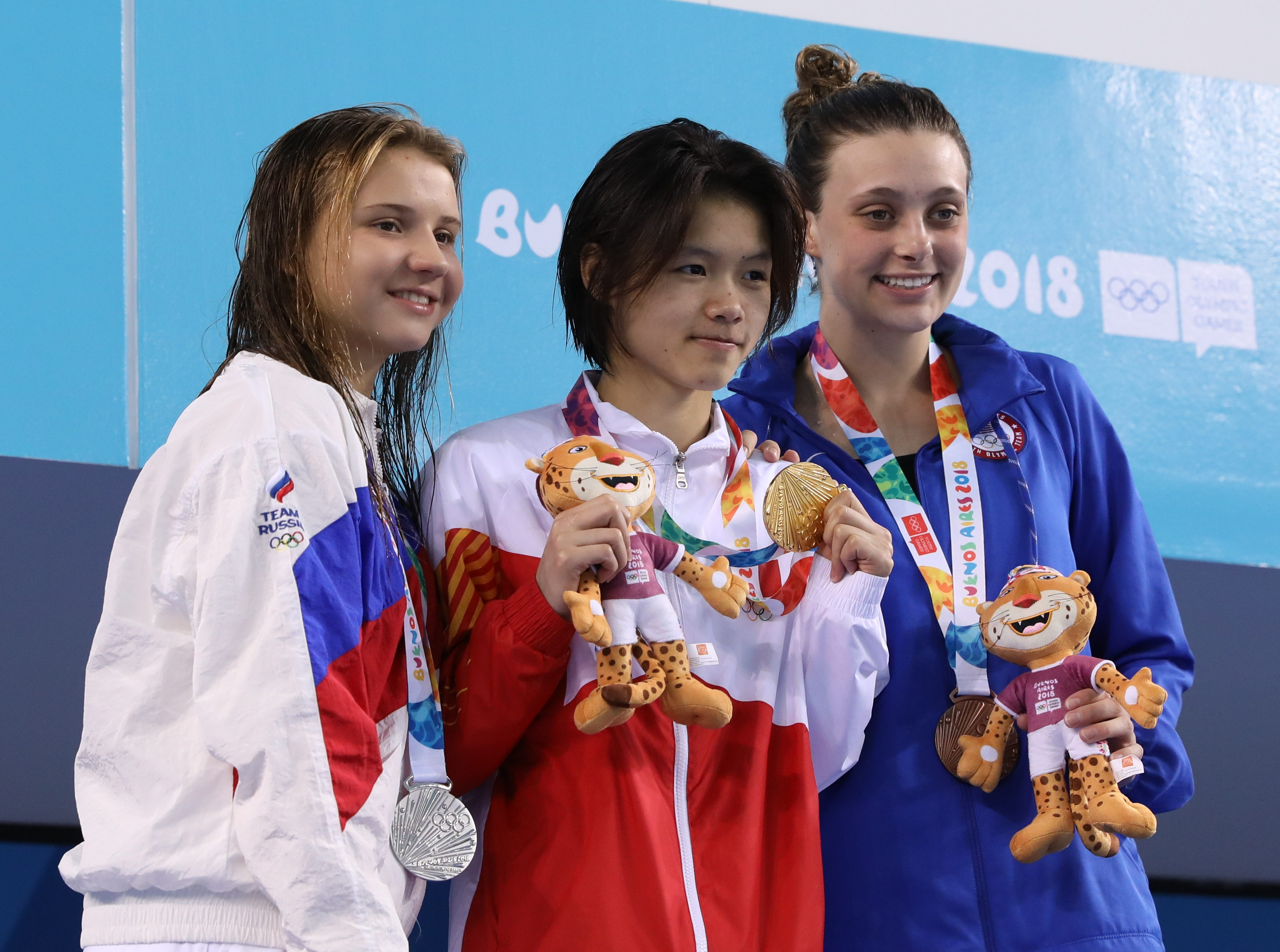 Diving, Girls 3 m springboard: Victory ceremony